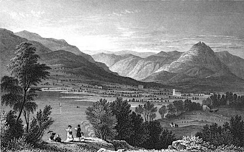 Engraved plate